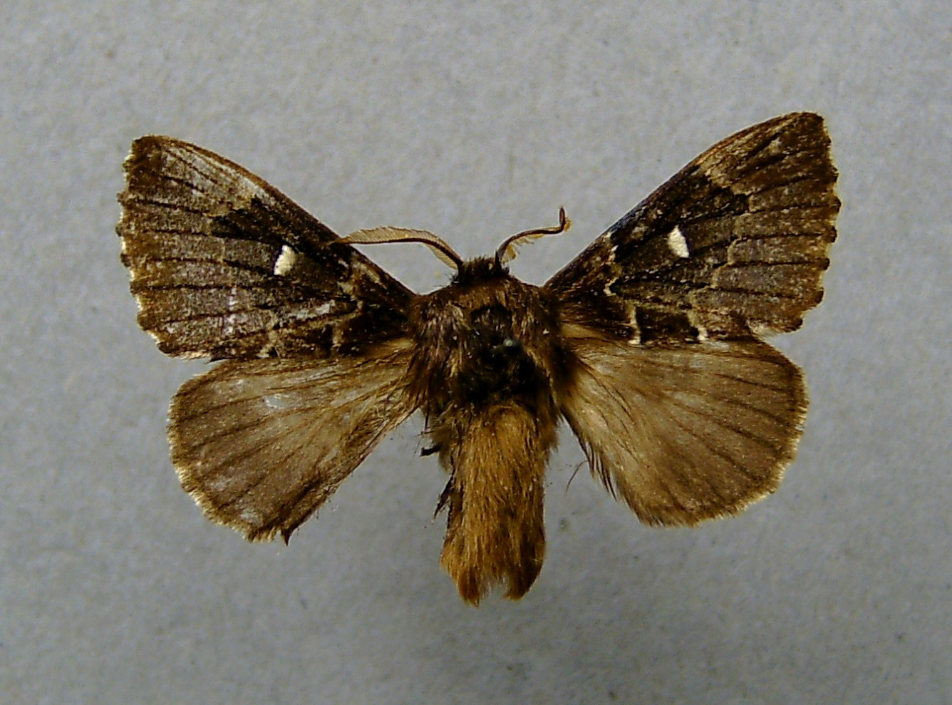 Cosmotriche lobulina